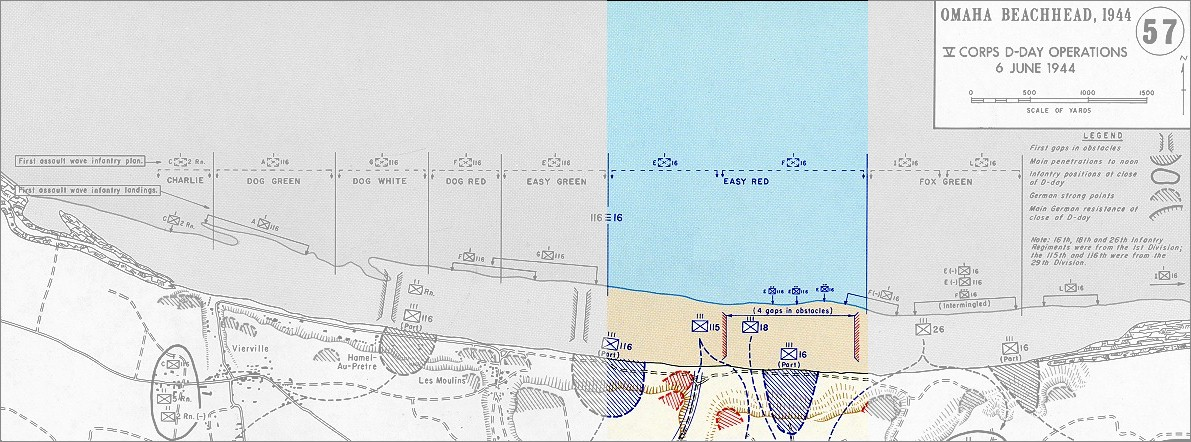 This is a treatment of the image Omaha_beachhead_6_June_1944.jpg already placed in Wikimedia Commons and used in the article Omaha Beach. I believe the source image is already GFDL licensed, and I generated this copy myself.